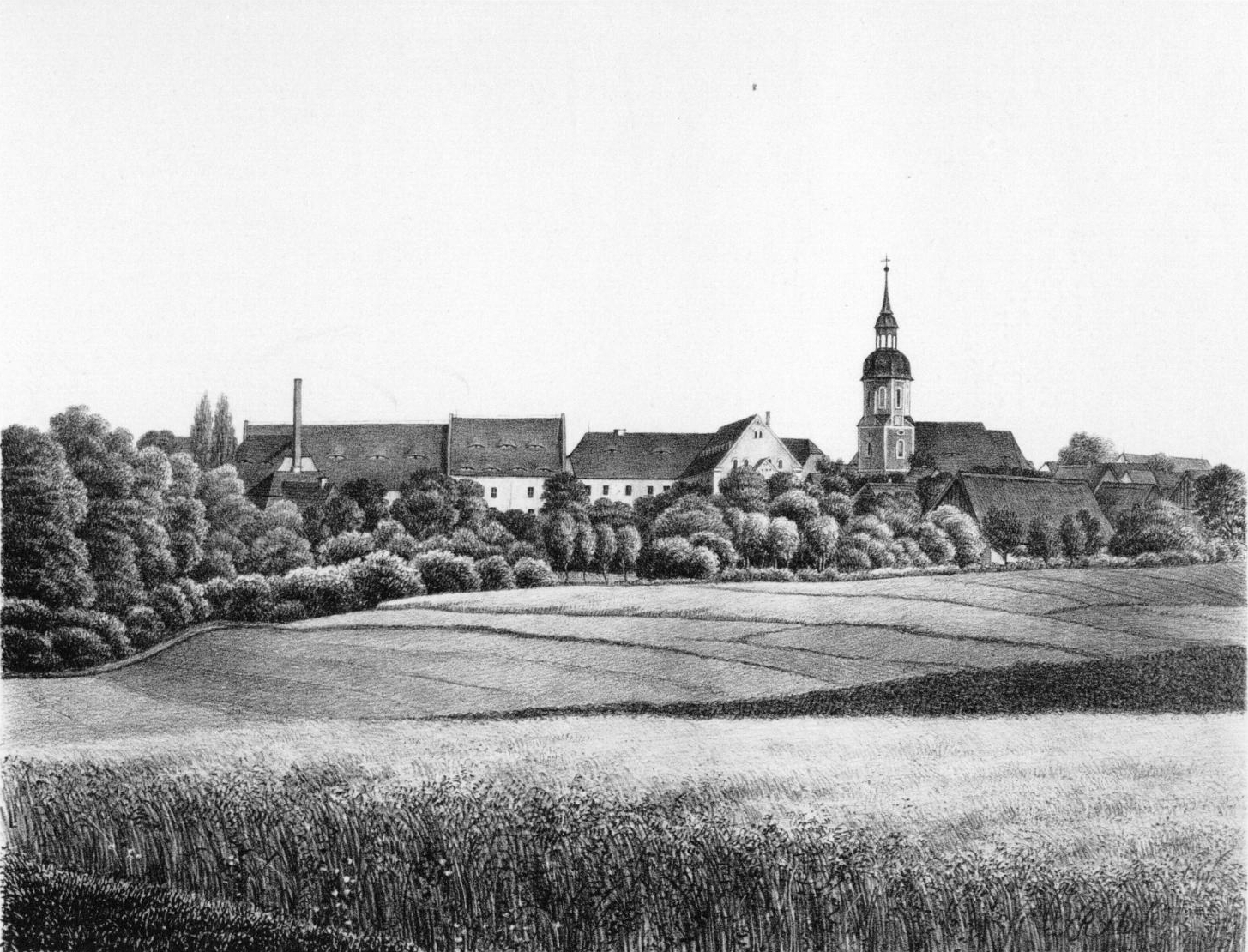 manor Polenz in Saxony